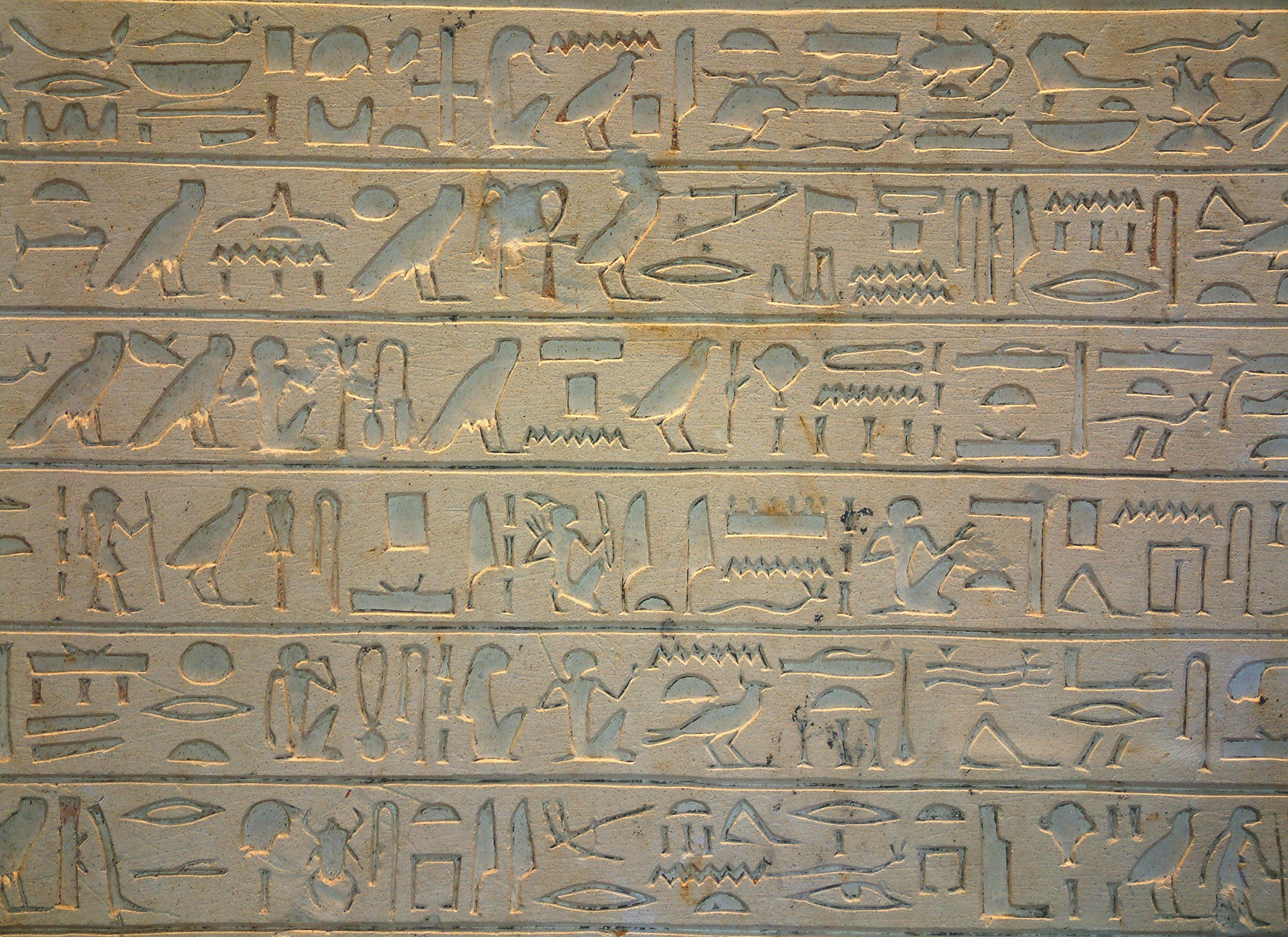 Egyptian hieroglyphs (reading from right to left): Line 1:Head of ram, Plucked goose, Planks crossed, Pustule, Face, Mountain Line 2:Necropolis, Arms spread, Mummy on bier, Line 3:Two diagonal strokes, Face, String coiled, Scribe equipment, Nile puffer Line 4:Corner, Archer, Chisel, Man with staff, Line 5:Canal with shrubs, Lapwing bird, Woman, Spit of land, Line 6:Plow, Scarab, Leg.